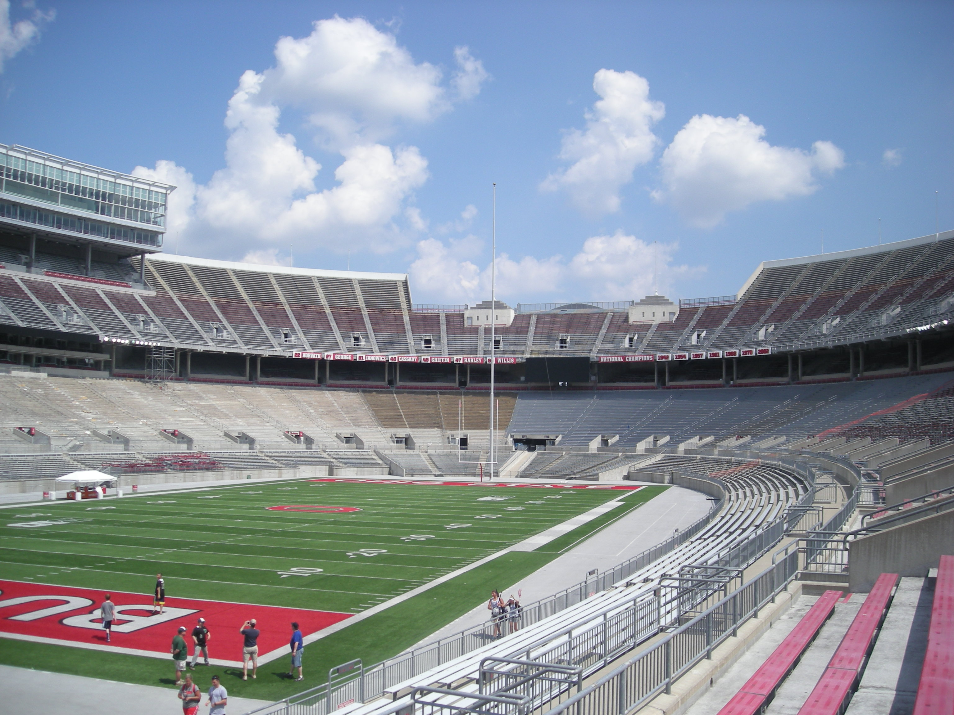 Ohio Stadium on the campus of The Ohio State University in Columbus, Ohio (United States).